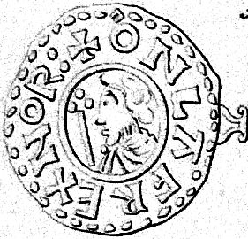 Coin (front) of King Olaf I Tryggvasson of Norway. Text: "+ ONLAF REX NOR(vegiae/mannorum)".